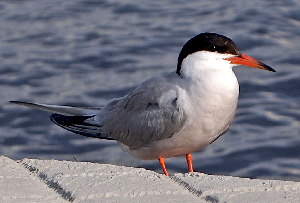 Common Tern (Sterna hirundo) in harbour of Jyväskylä, Finland.